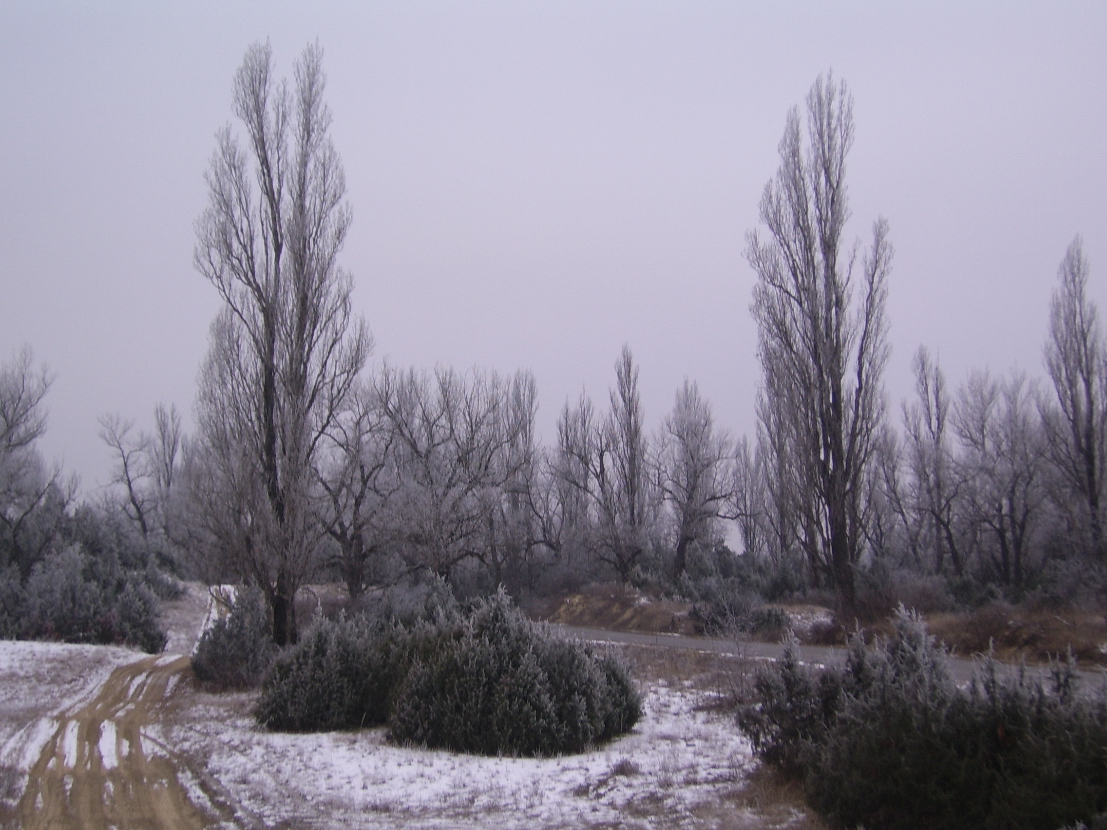 Landscape near Táborfalva, Hungary